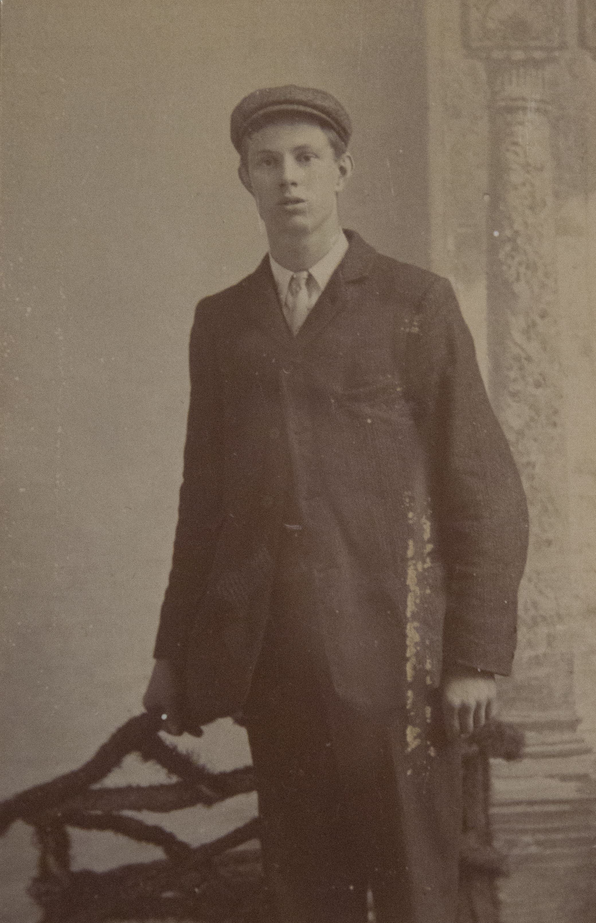 The artist at the turn of the century